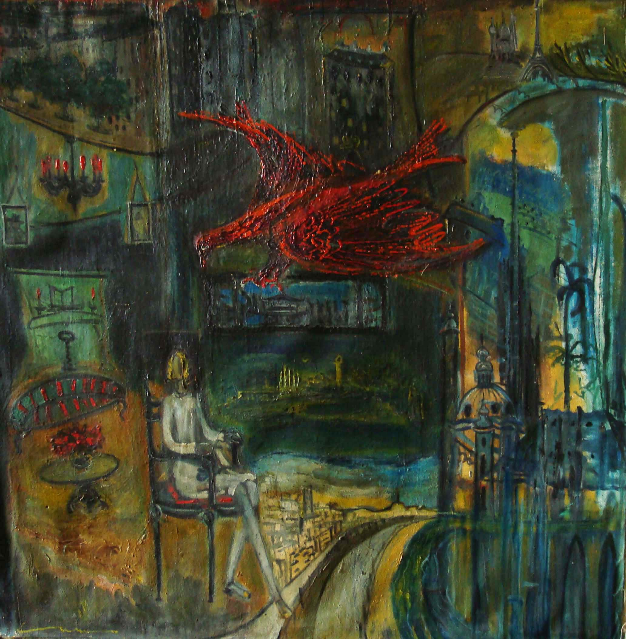 "Memories", painting by Lola Carr. Lola surrounded by her memories of Vienna, London, Paris, Tel Aviv, and Jerusalem with the red bird hovering over her.